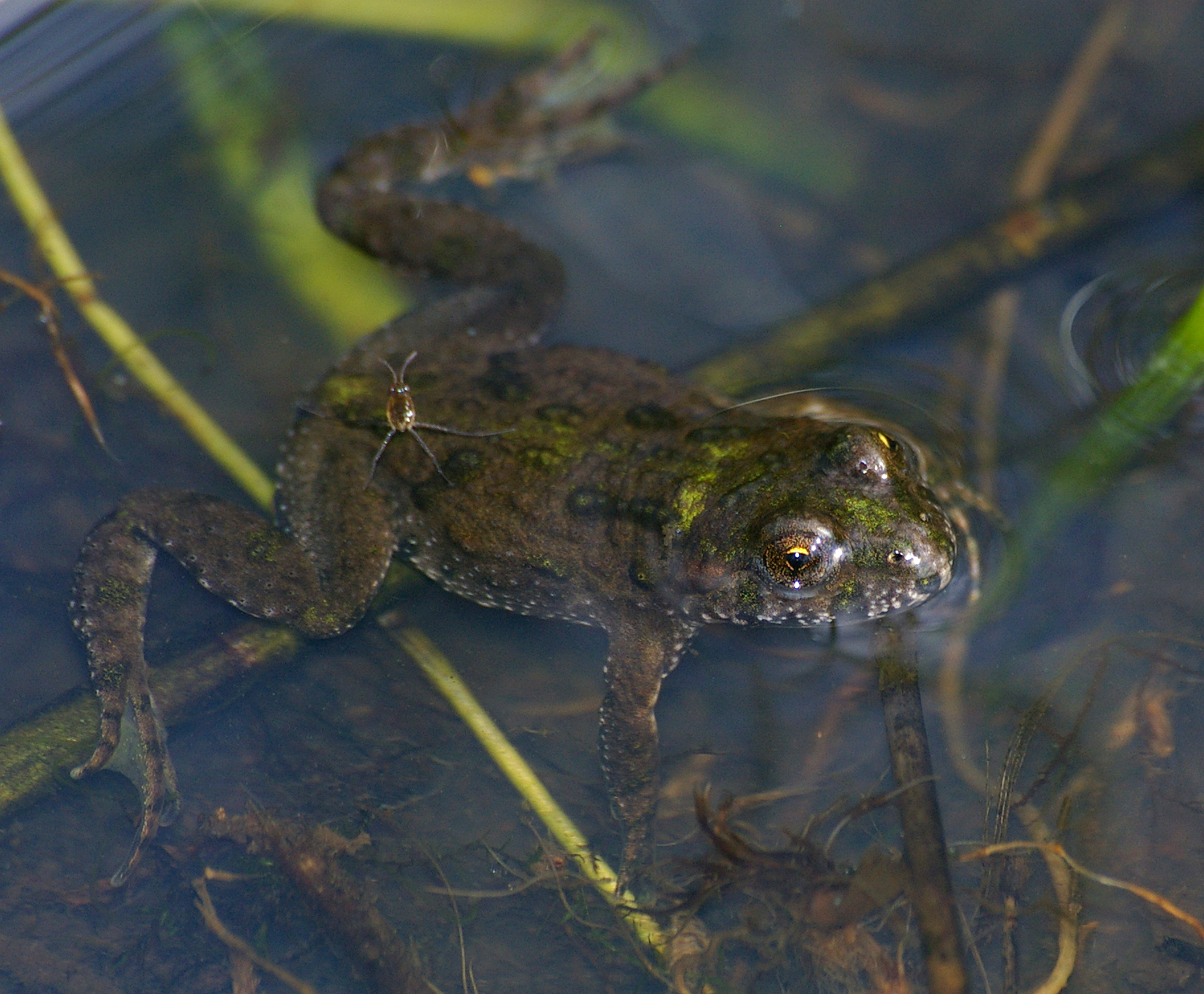 Dorsal side of a European Fire-bellied Toad (Bombina bombina); dark juvenile specimen.